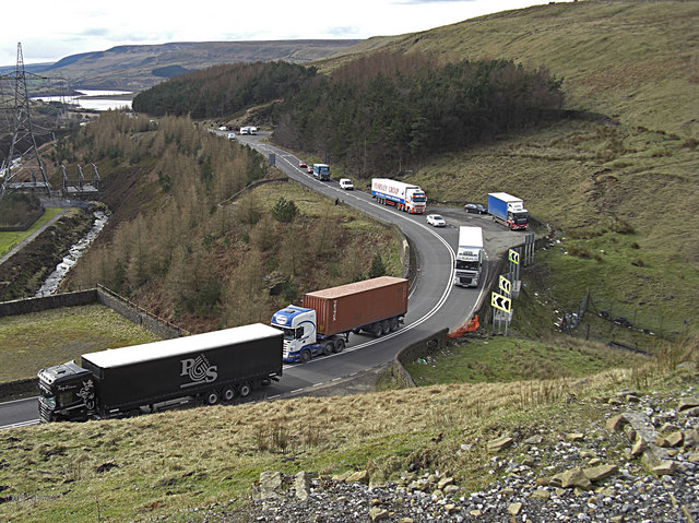 Woodhead Pass, A628 Looking from the Trans Pennine Trail. The A628 carries a lot of heavy traffic between Manchester and South Yorkshire. Here we see Yorkshire-bound traffic with one juggernaut crossing the double white lines on a severe bend. Possibly a homesick continental driver. The Longdendale Valley can be seen left of shot.